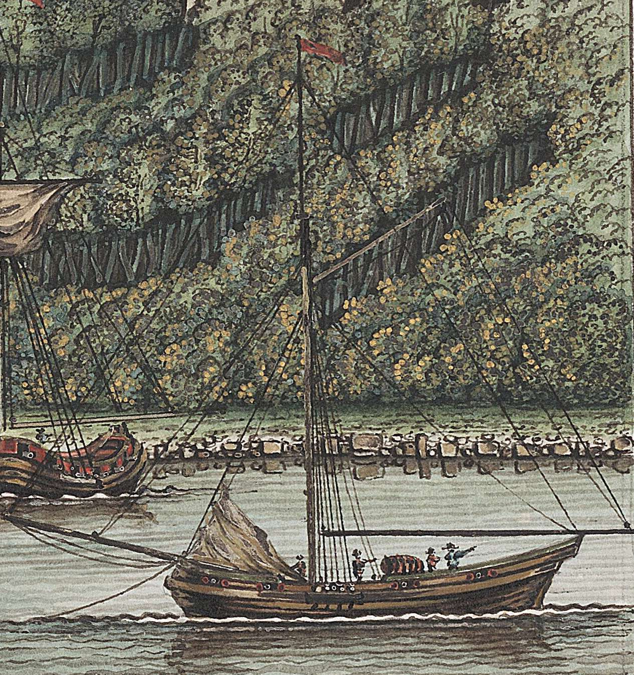 Sloop "Prince Lee Boo" detail from Bacstrom c.1792